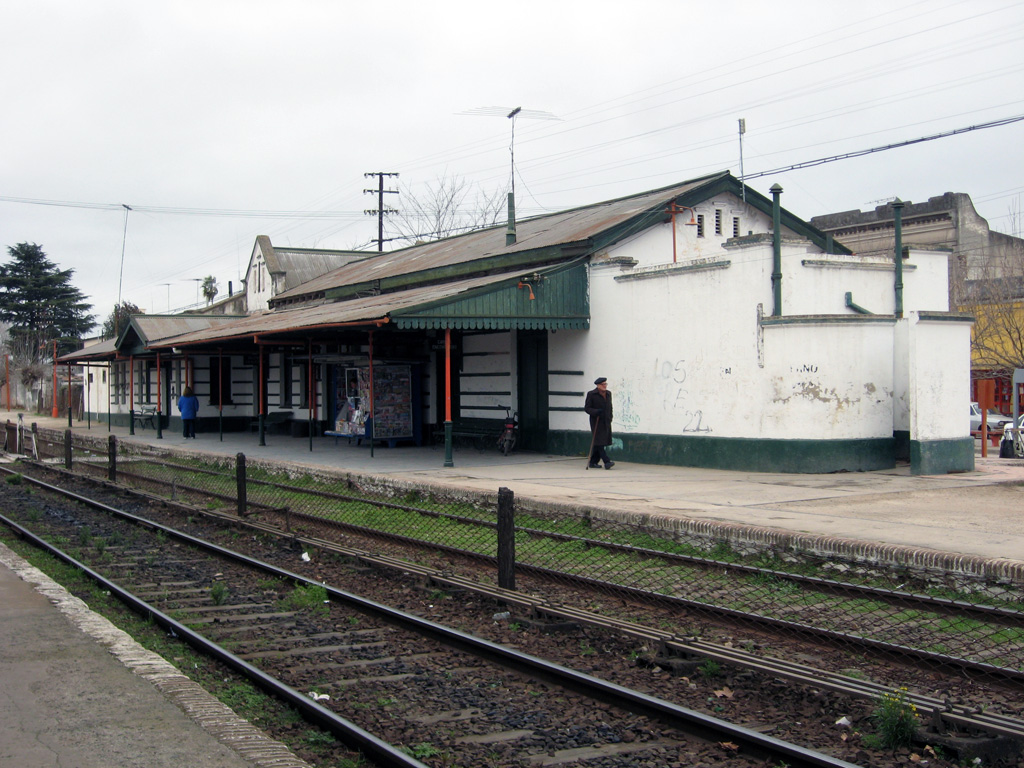 Coronel Brandsen Train Station